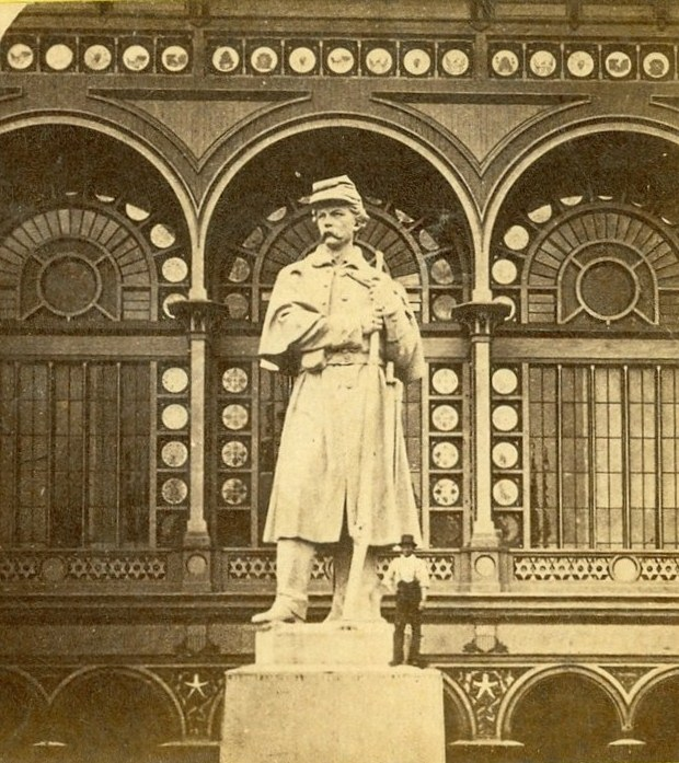 "The American Volunteer." Colossal granite statue of a Union soldier, exhibited at the 1876 Centennial Exposition. Installed in 1880 at Antietam National Cemetery, Sharpsburg, Maryland. Cropped image from a steroscopic view.